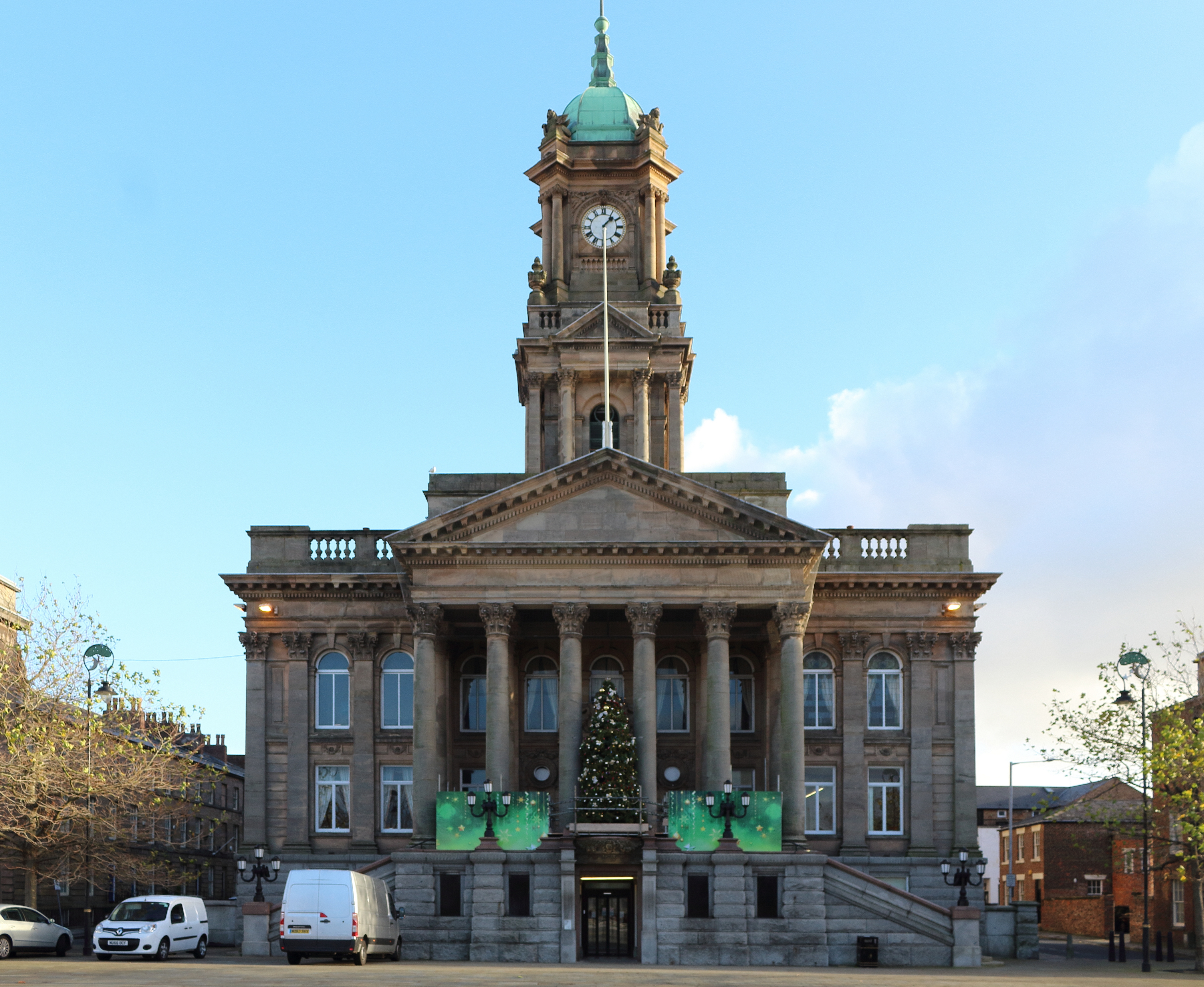 Grade II* listed Birkenhead Town Hall. Front elevation decked out for Christmas from the cenotaph opposite.